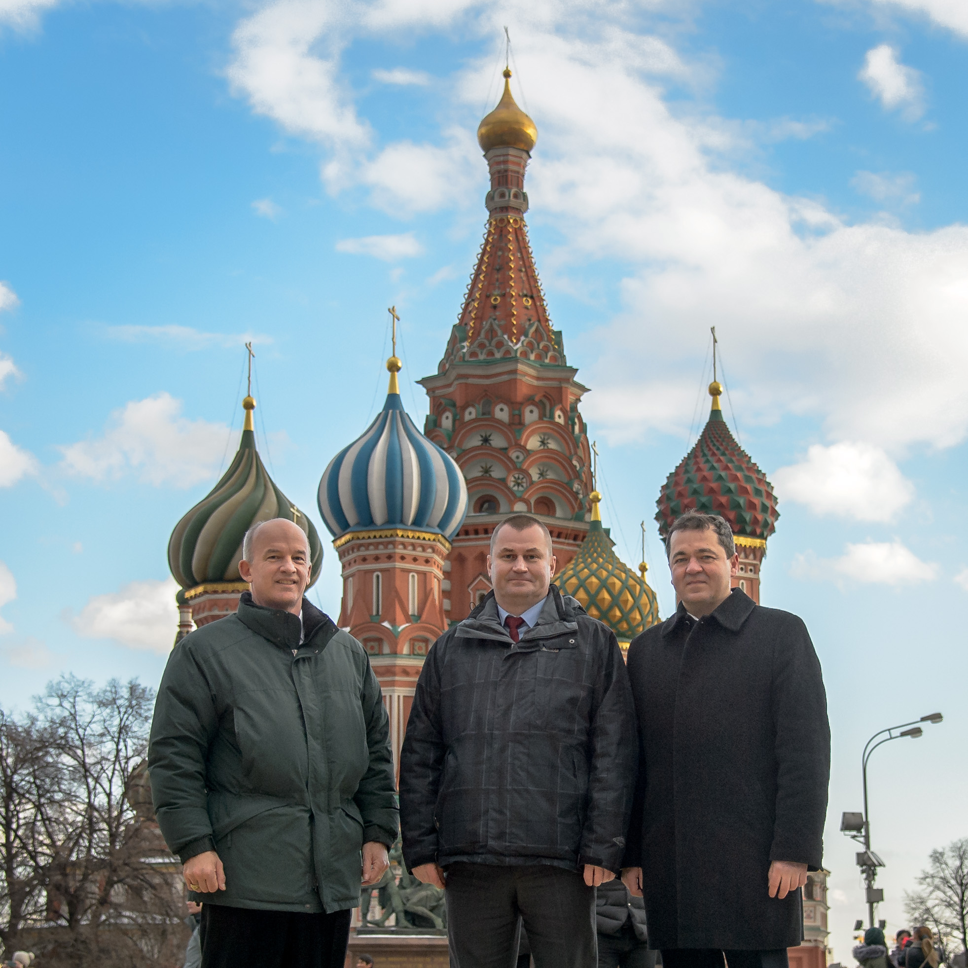 Expedition 47 crew members: NASA astronaut Jeff Williams, left, Russian cosmonauts Alexei Ovchinin, center, and Oleg Skripochka of Roscosmos, pose for a photograph in front of Saint Basil's Cathedral in Red Square shortly after having laid roses at the site where Russian space icons are interred as part of traditional pre-launch ceremonies Friday, Feb. 26, 2016, Moscow, Russia.